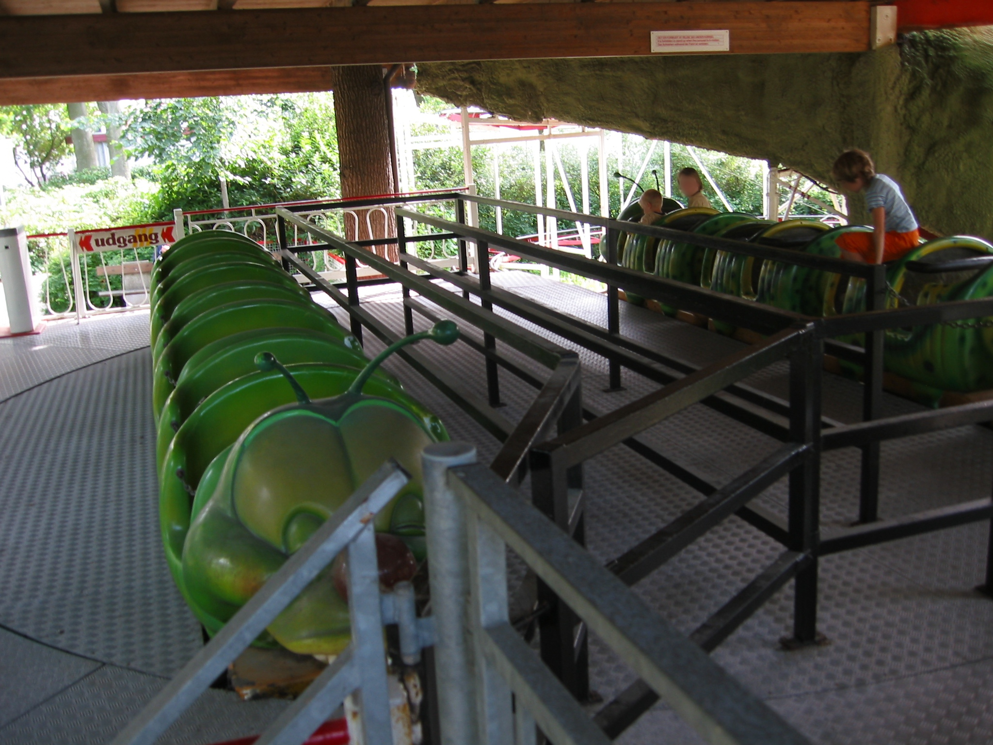 The station of the roller coaster Kålormen at Tivoliland Aalborg.